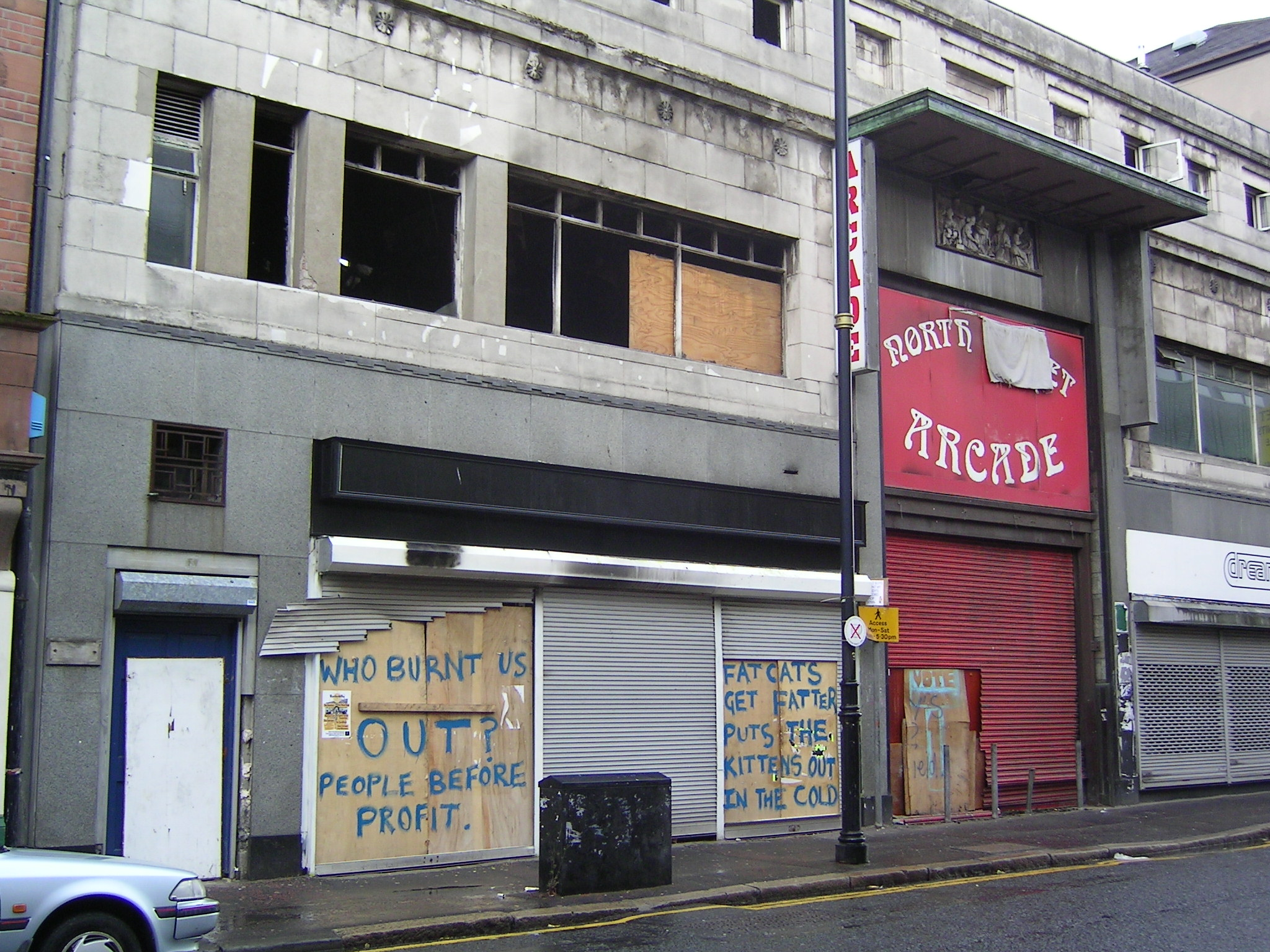 North Street Arcade, Cathedral Quarter, Belfast. An example of the opposing forces of development in the area.